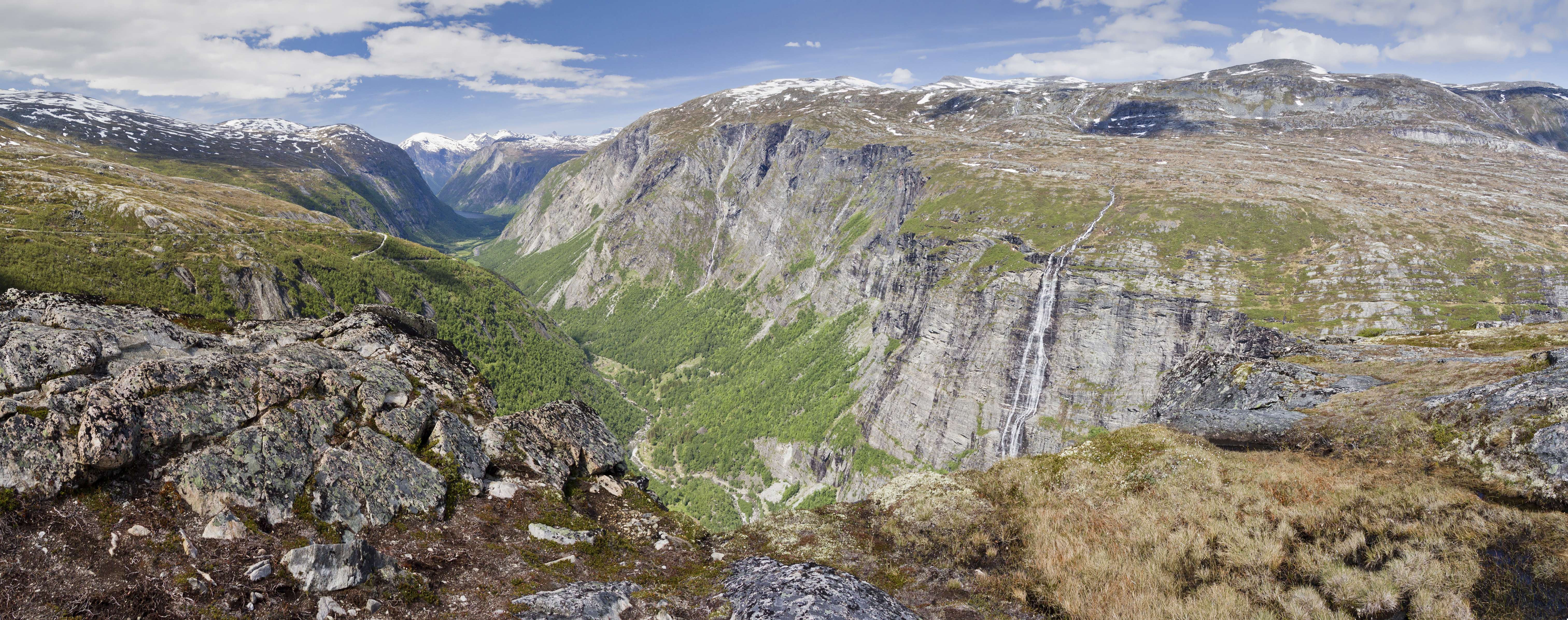 A view to Eikesdalen valley from a cliff at Aurstaupet in Nesset, Møre og Romsdal, Norway in 2013 June.